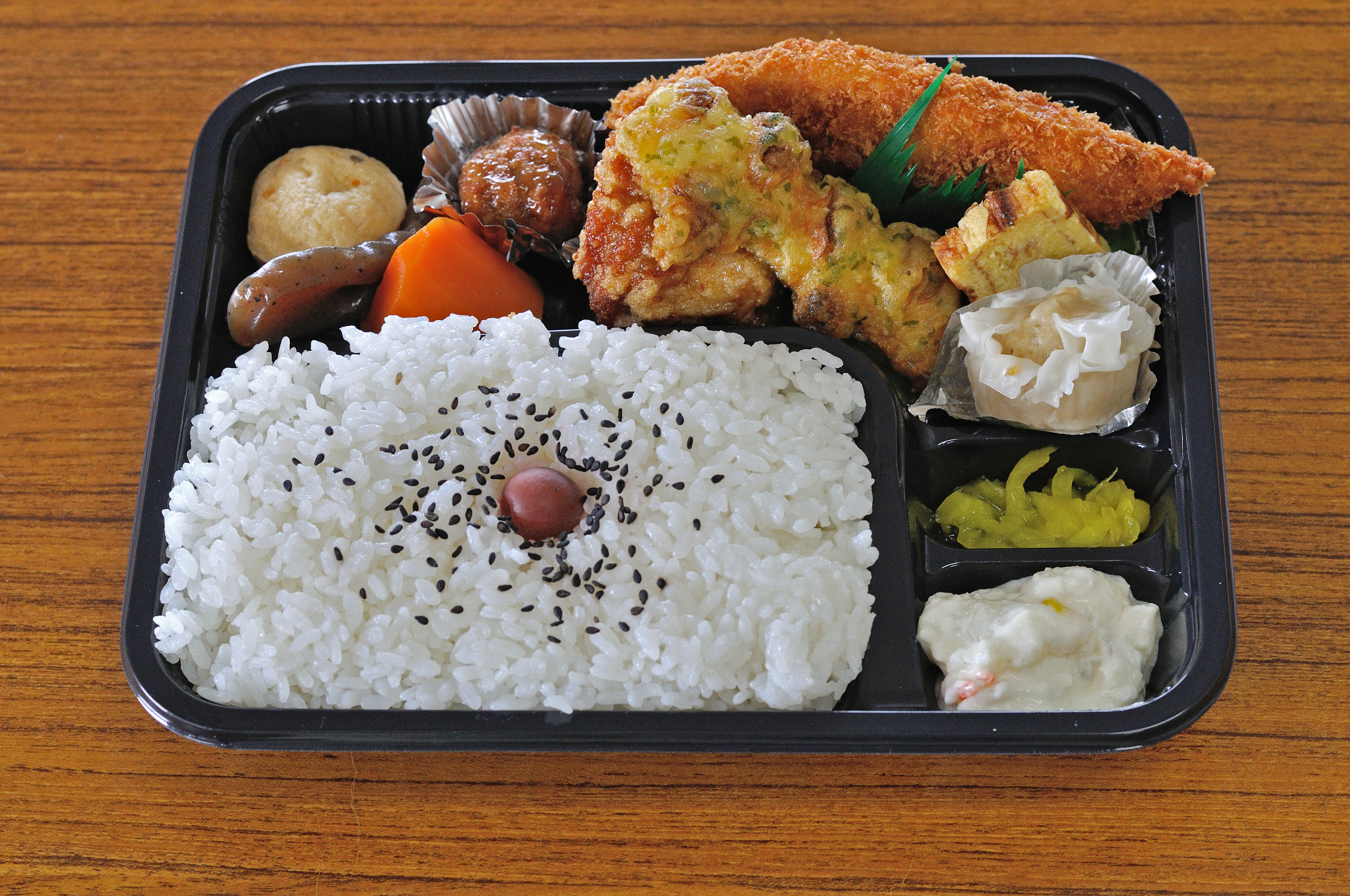 One of typical Bento